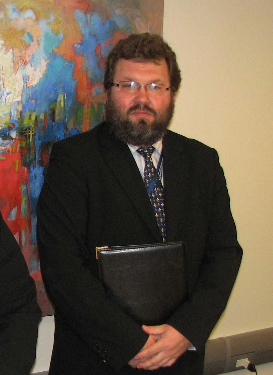 Margus Kolga, ambassador to the United Nations from Estonia